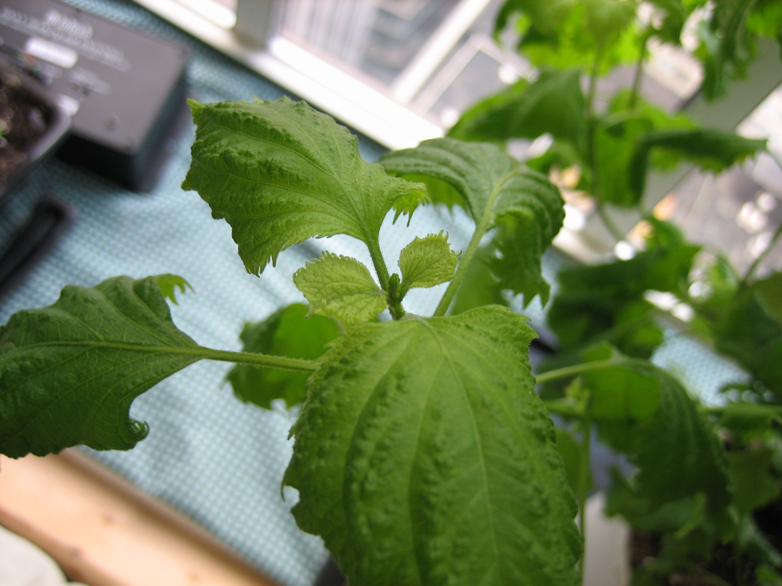 Potted Shiso (シソ) (Perilla frutescens) plant, leaf and stem detail